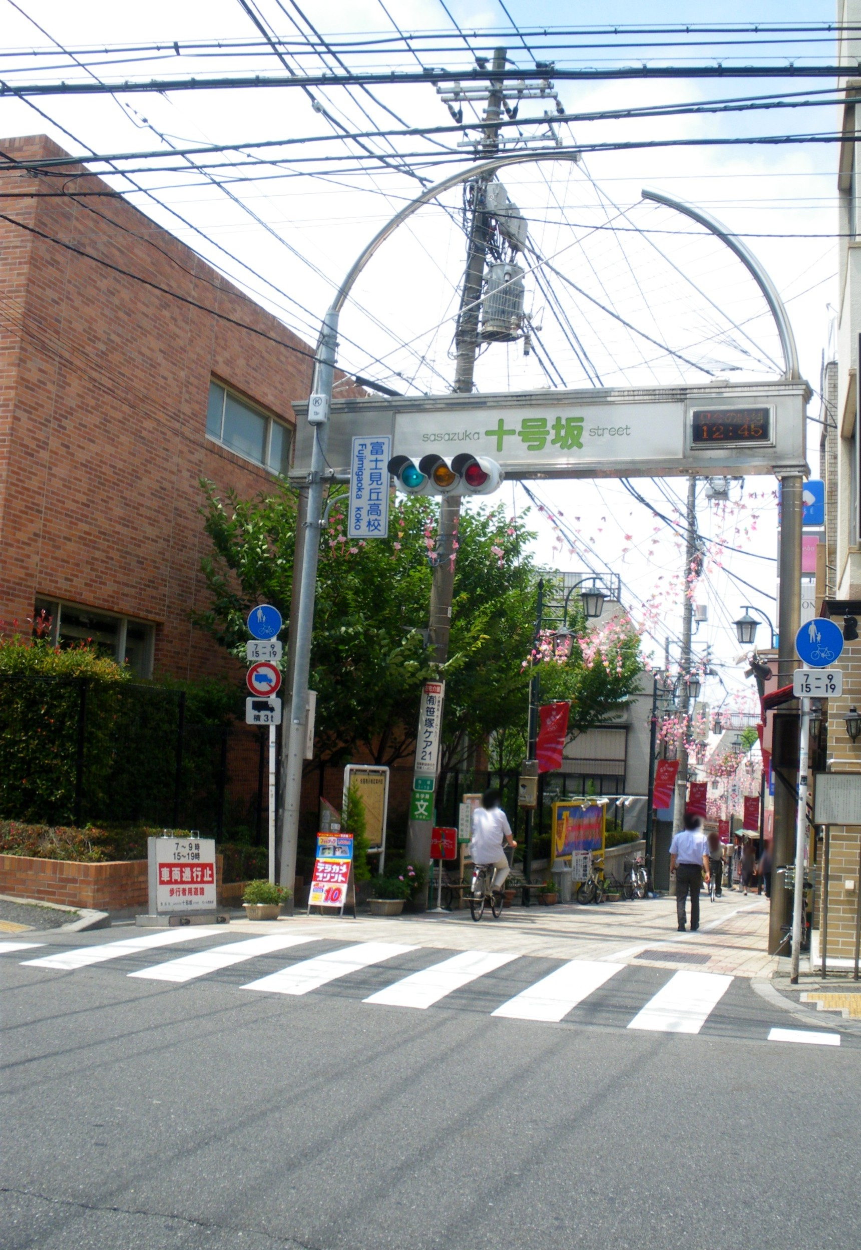 10go zaka Shopping Street(Sasazuka,Shibuya,Tokyo)